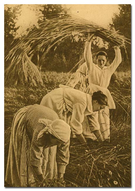 Harvesting in Finland in 1925.